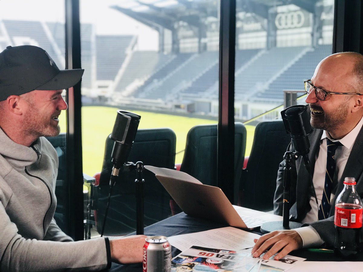 Roger Bennett with Wayne Rooney